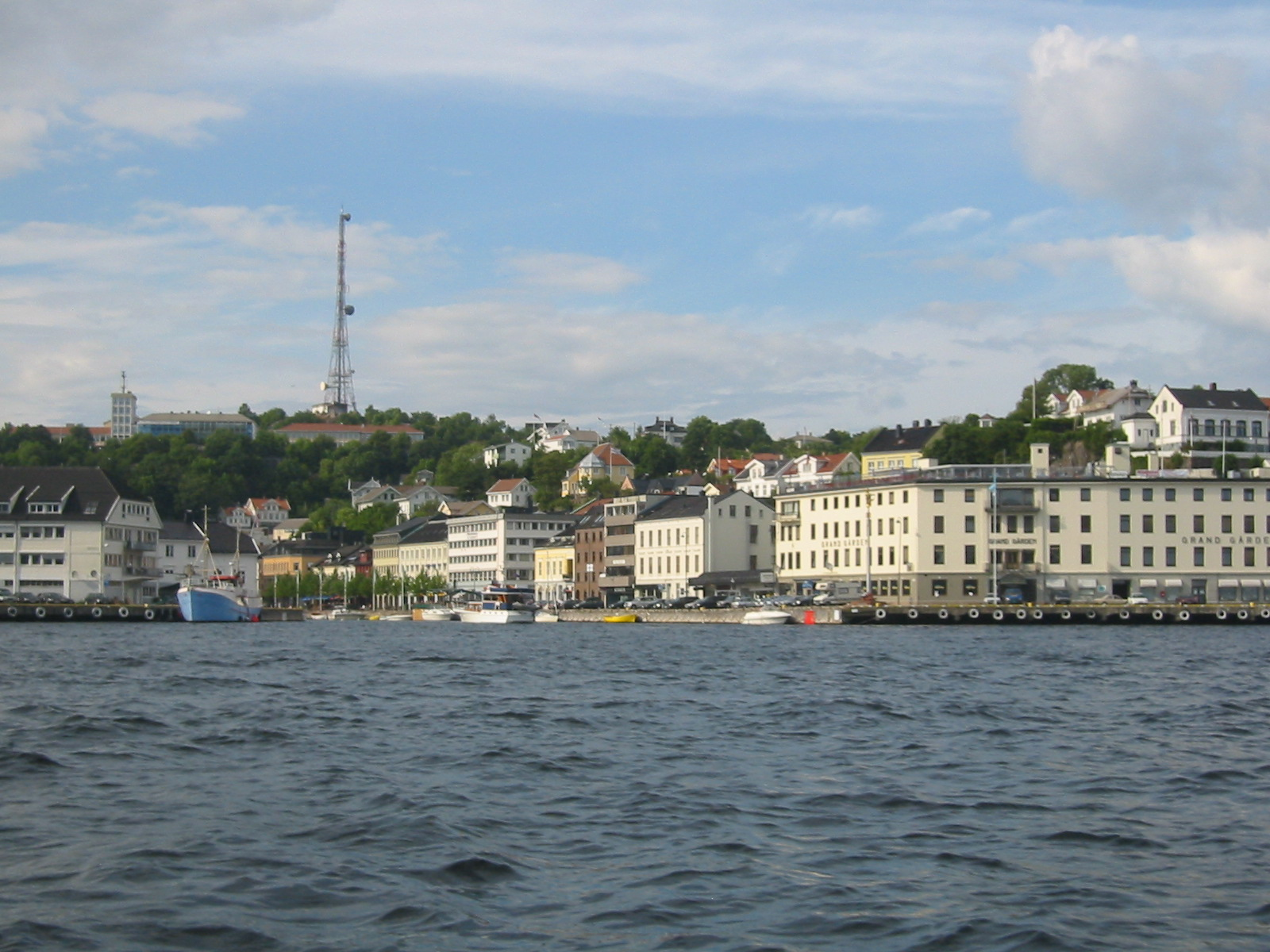 Arendal view from Ocean